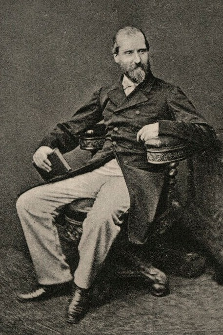 Henry Vizetelly, after a photograph by Unknown photographer. Heliogravure